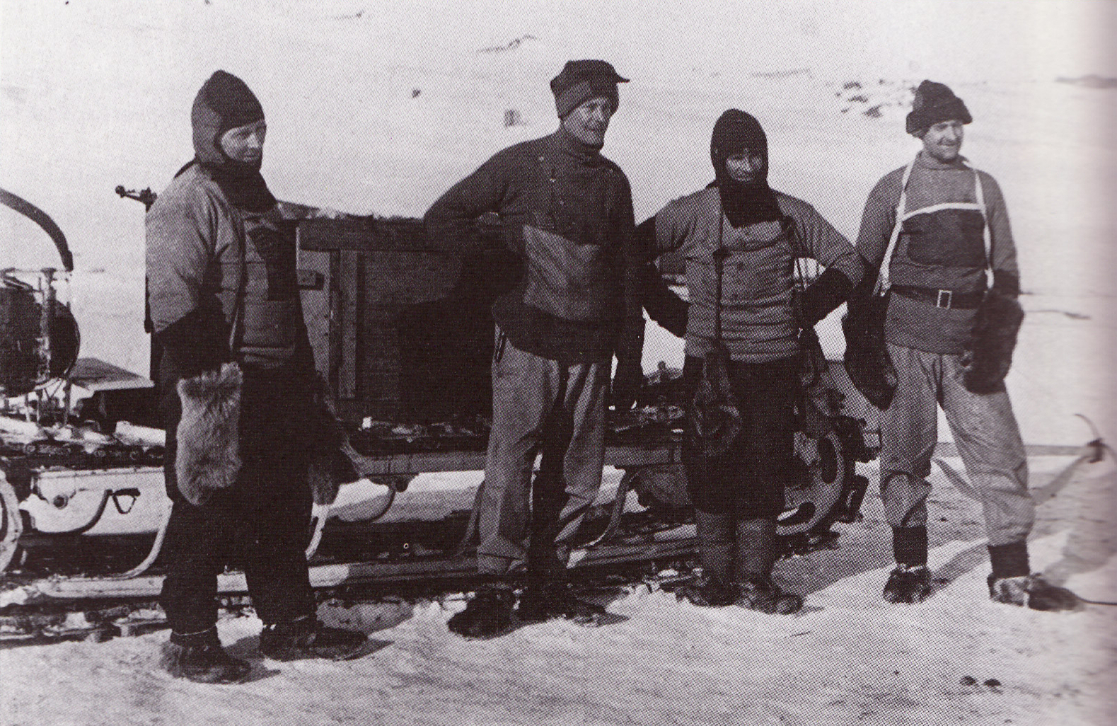 Members of the Terra Nova Expedition posing in front of one of the motorised sleds.